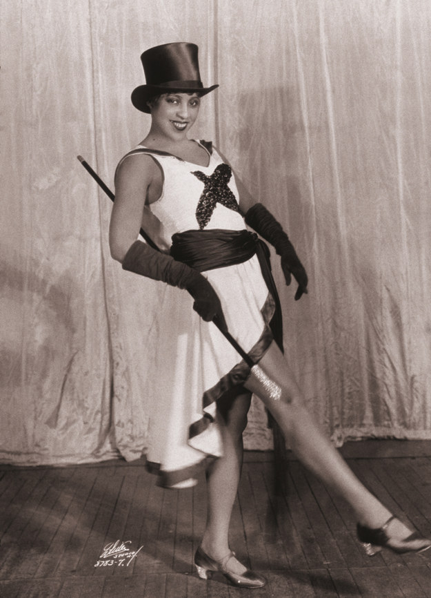 Jazz singer Adelaide Hall c. 1920.